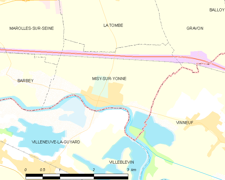 Map of French municipality Misy-sur-Yonne